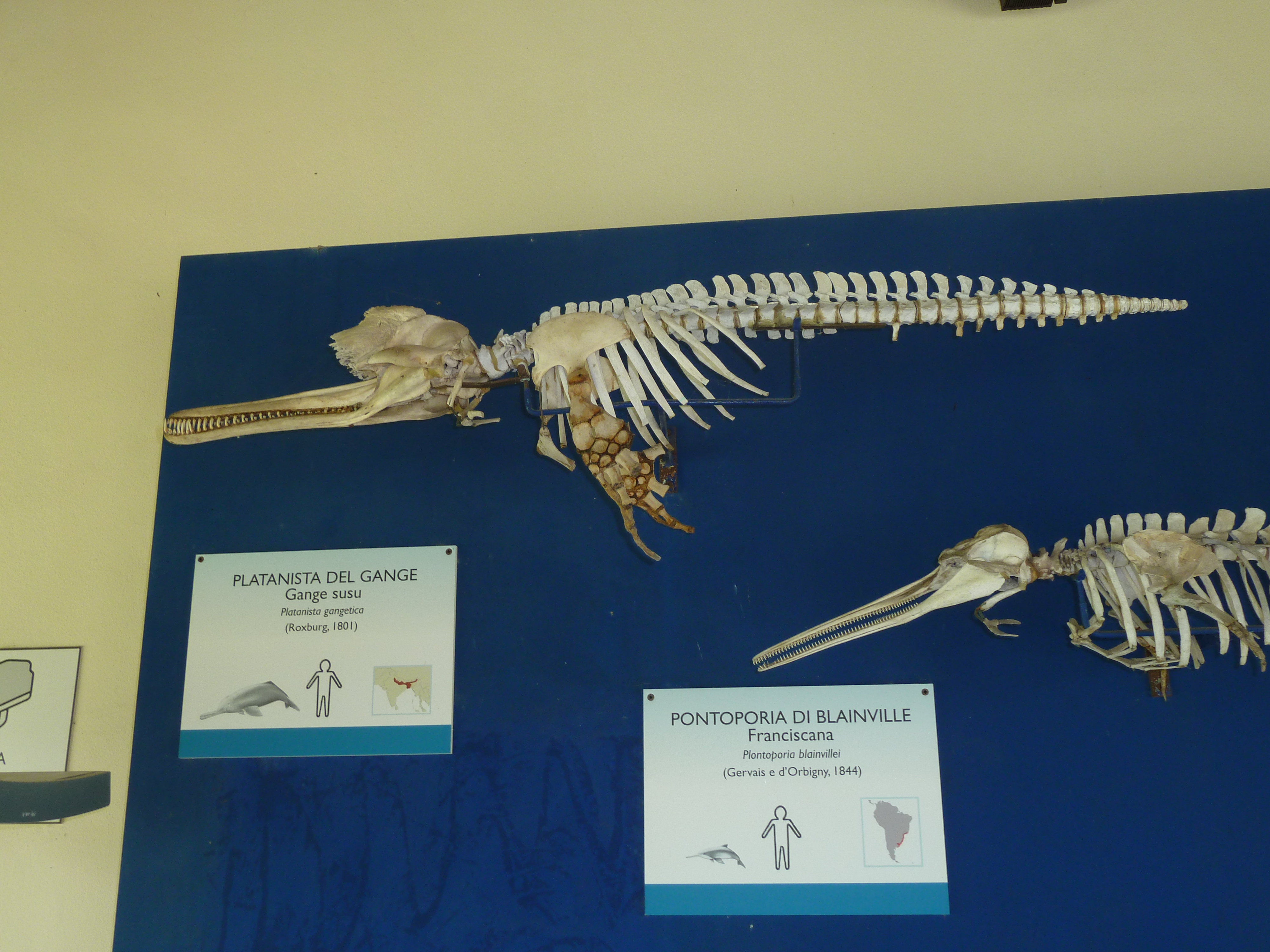 Odontoceti Pisa Platanista gangetica